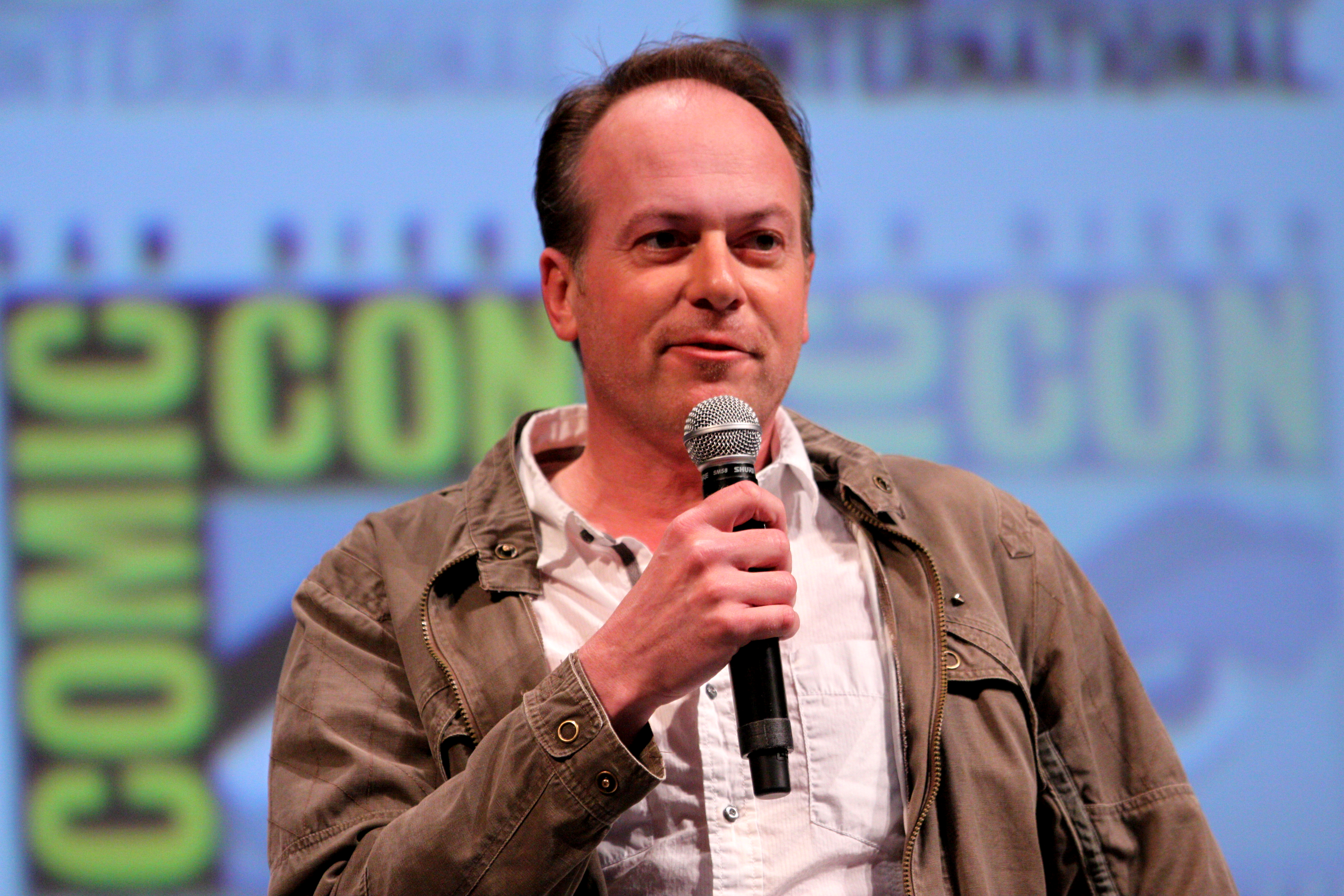 Tom McGrath, director of the 2010 film MegaMind by Dreamworks at the MegaMind panel at the 2010 San Diego Comic Con in San Diego, California.